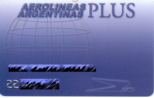 Member card of Aerolíneas Argentinas' Aerolíneas Plus frequent flier programme.